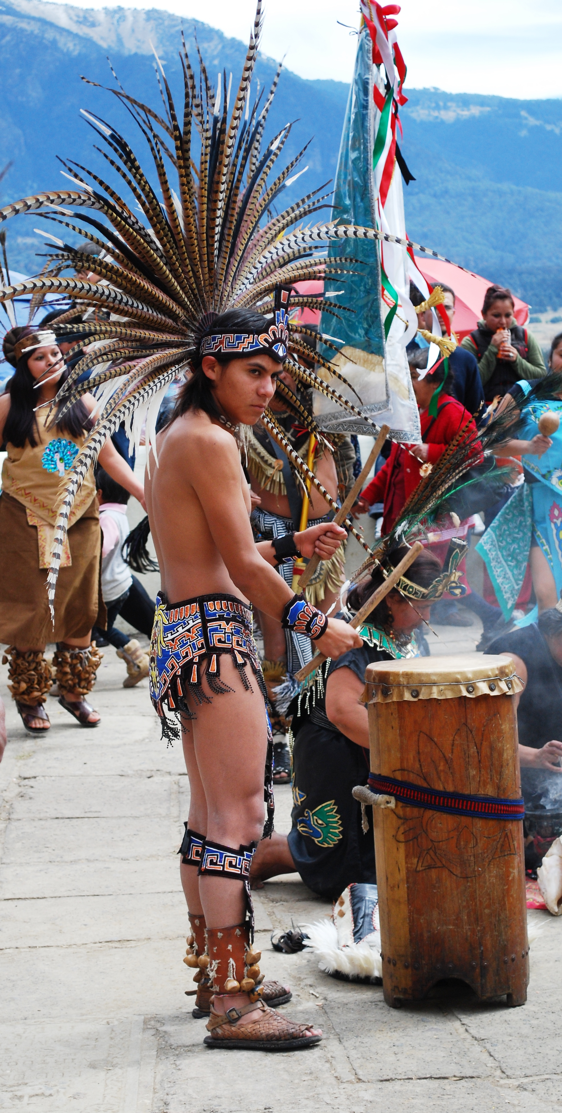 Drummer in Aztec garb at the Feast of the Señor del Sacromonte in Amecameca, Mexico State